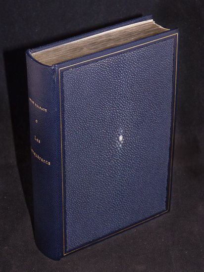 Galuchat binding, work of Goy & Vilaine